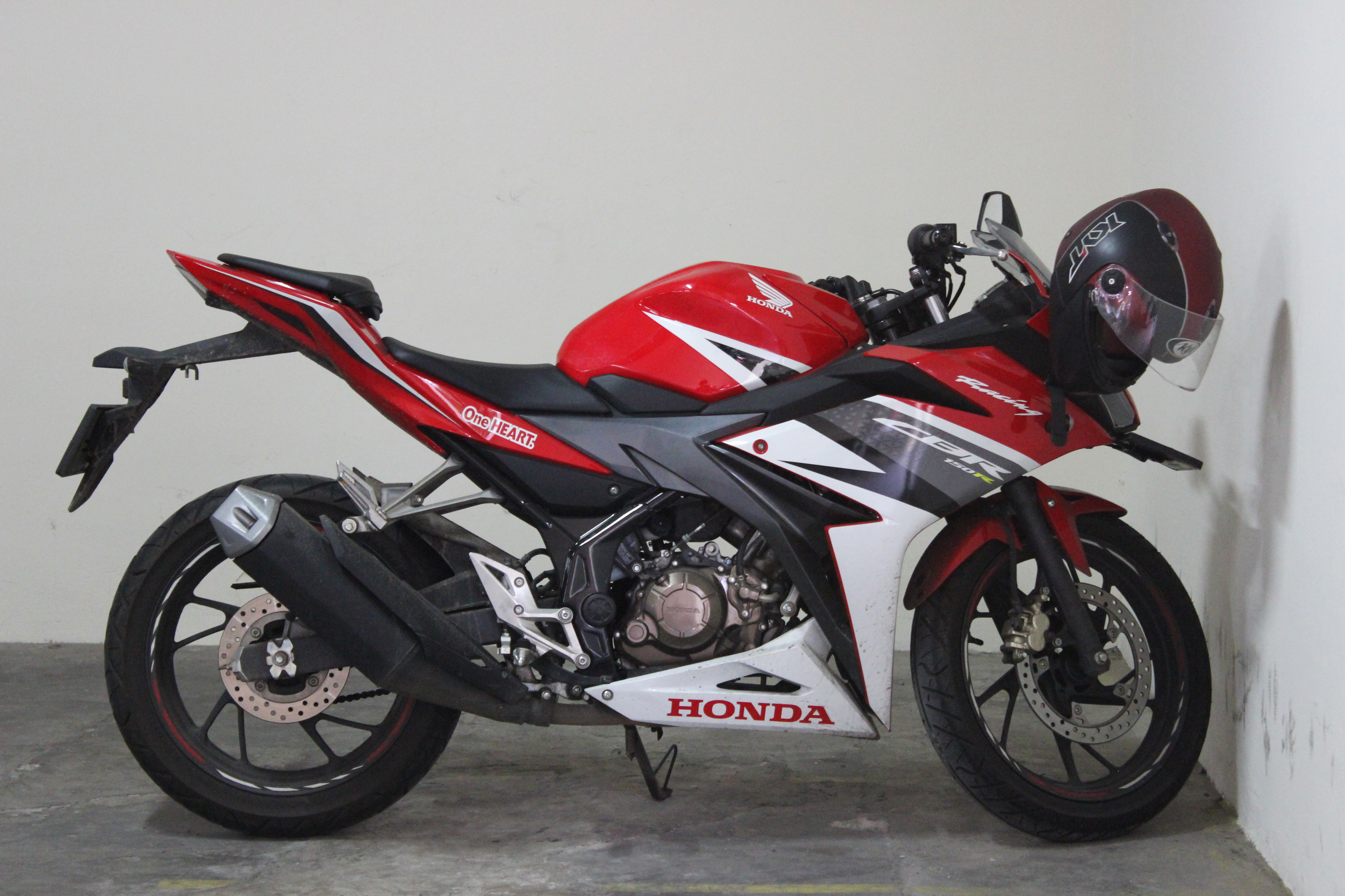 A Honda CBR150R photographed in Jakarta, Indonesia on August 2, 2016.